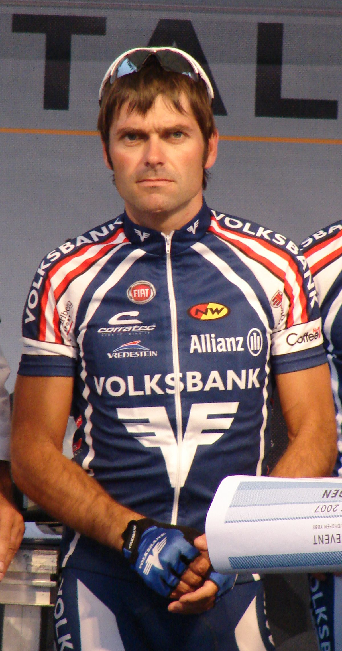 Austrian bicycle racer Harald Morscher during the "Nightrace .07" in Waidhofen an der Ybbs on August 24, 2007.